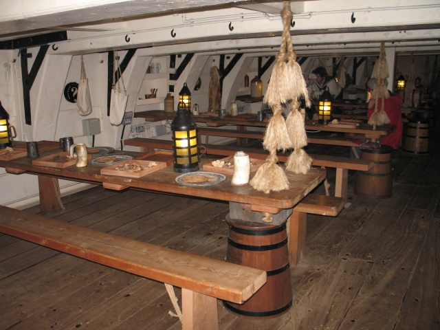 Crew mess tables below deck on HMS Trincomalee.